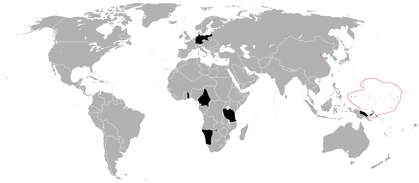 The German Empire and its colonial possessions in 1914. The red circles are to improve the sighting of very small single pixel German territories. Note that the northernmost German holding in China was one of many European holdings in the Chinese trading city of Tianjin.